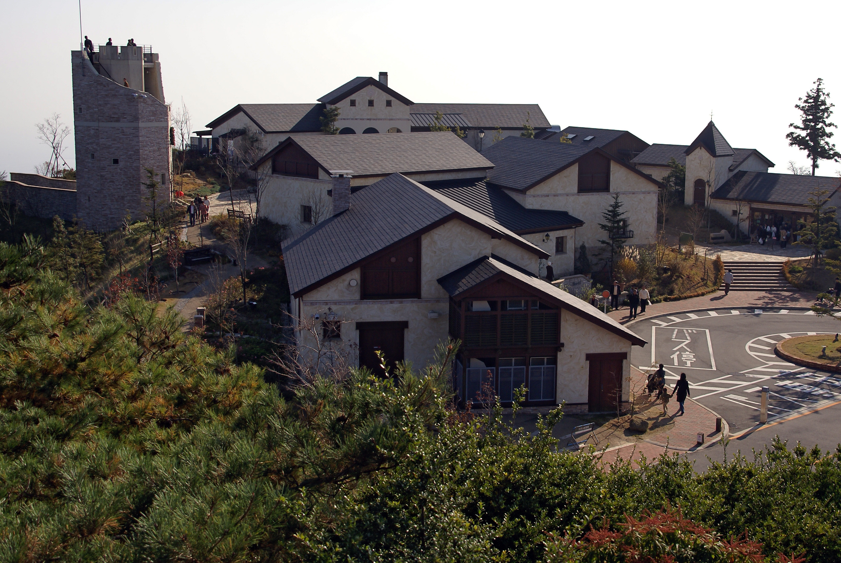 Rokko Garden Terrace in Kobe, Hyogo prefecture, Japan